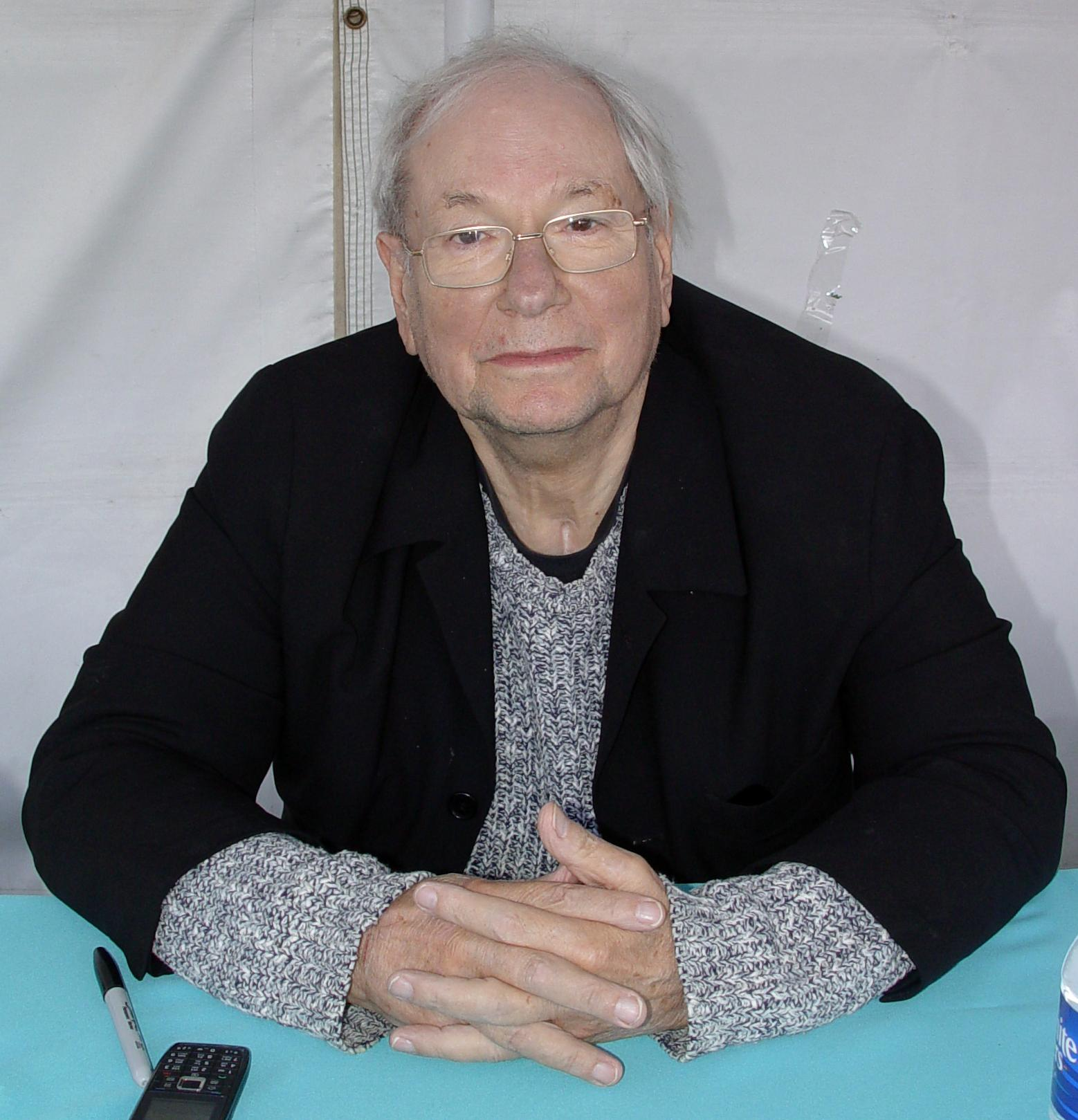 Yoram Kaniuk, Israeli writer, journalist, and artist. Taken at the Celebration of Jewish Books Festival, American Jewish University, Bel Air, California.